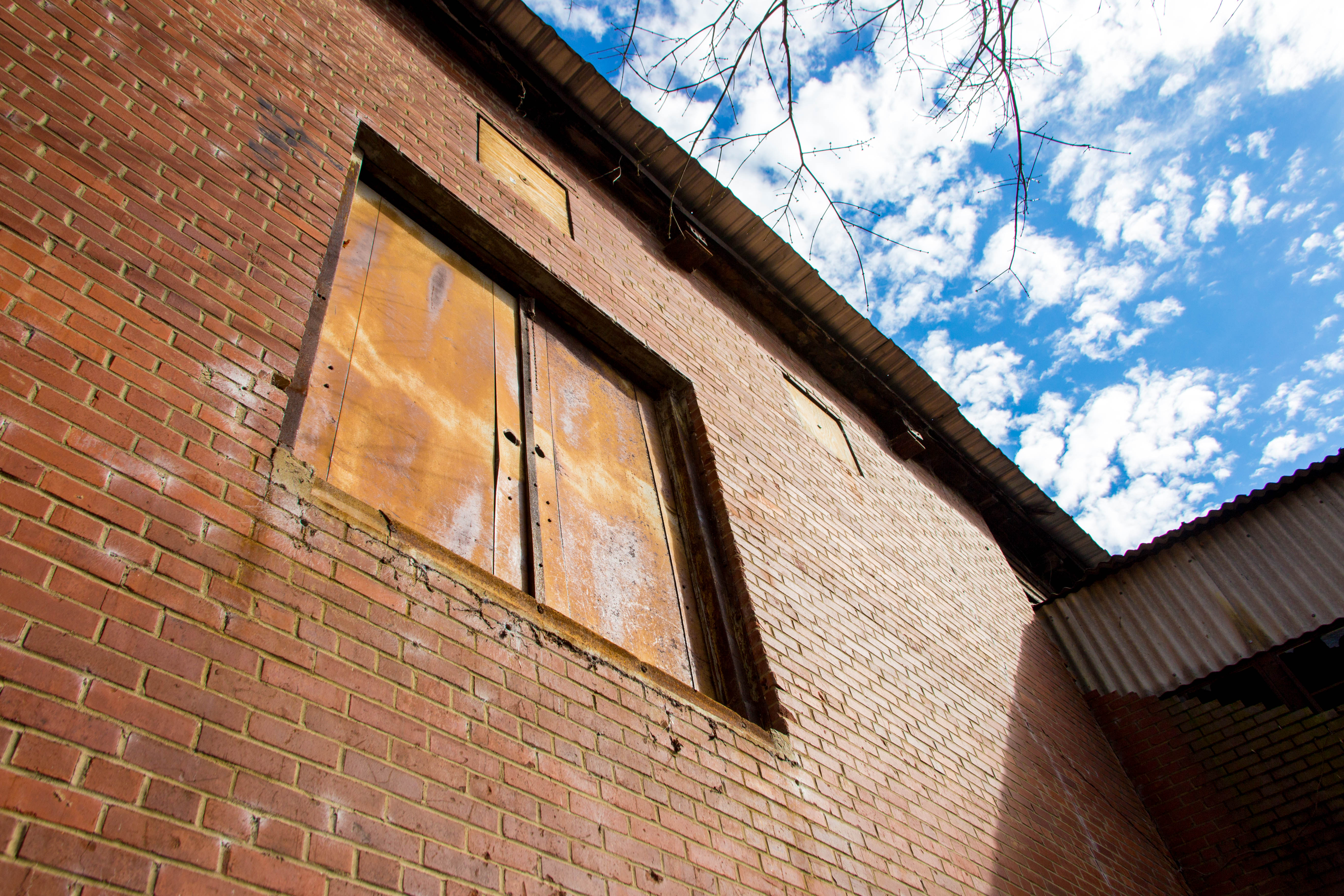 Double Shoals Cotton Milldoor to nowhere